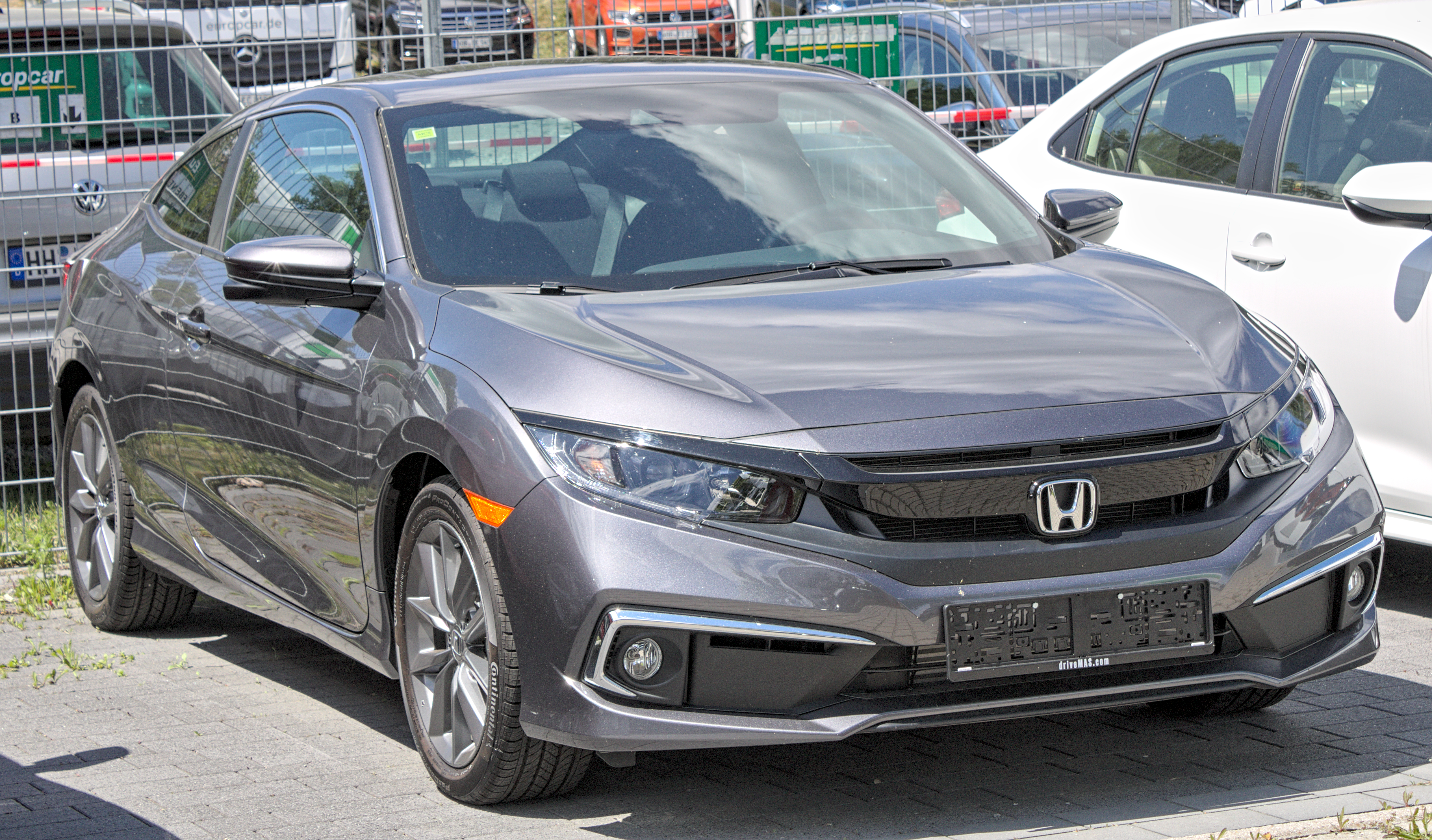 Honda_Civic_(2015)_coupe in Stuttgart-Vaihingen